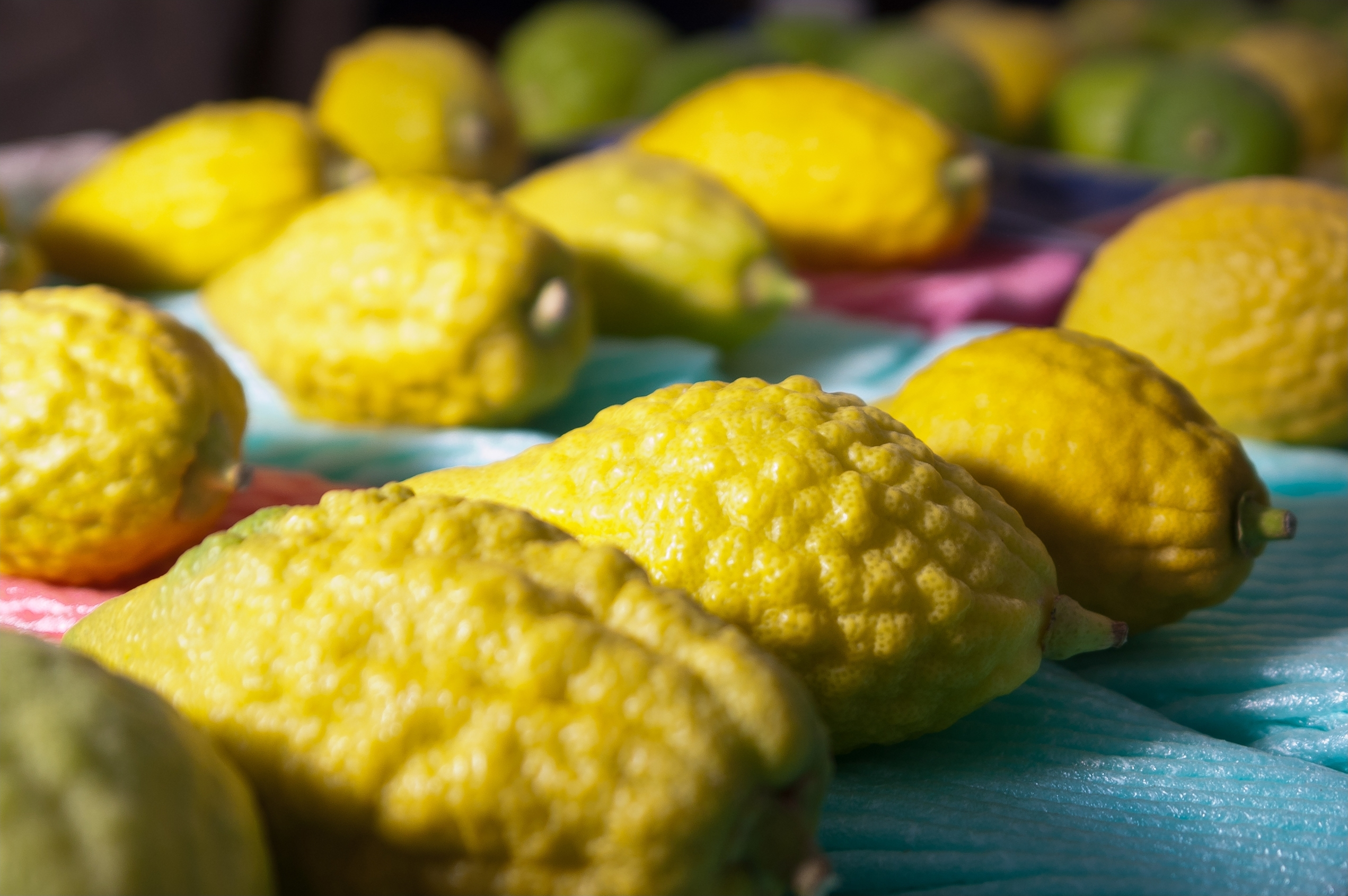 Several rows of etrog. Strobist info: hand held Radio triggered off camera flash equipped with lumiquest II soft box.